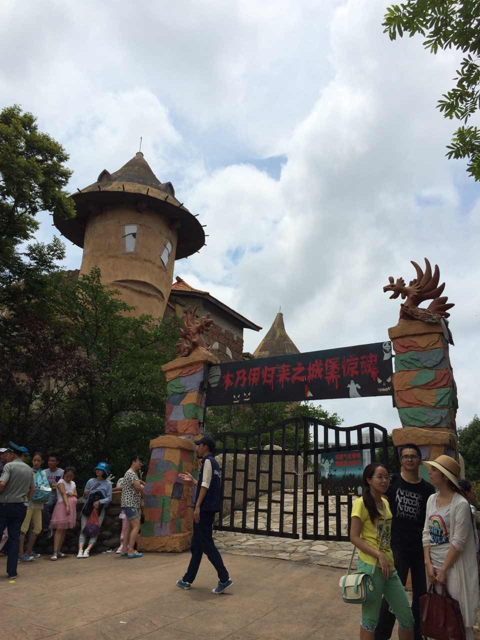 fenghuangshan theme park